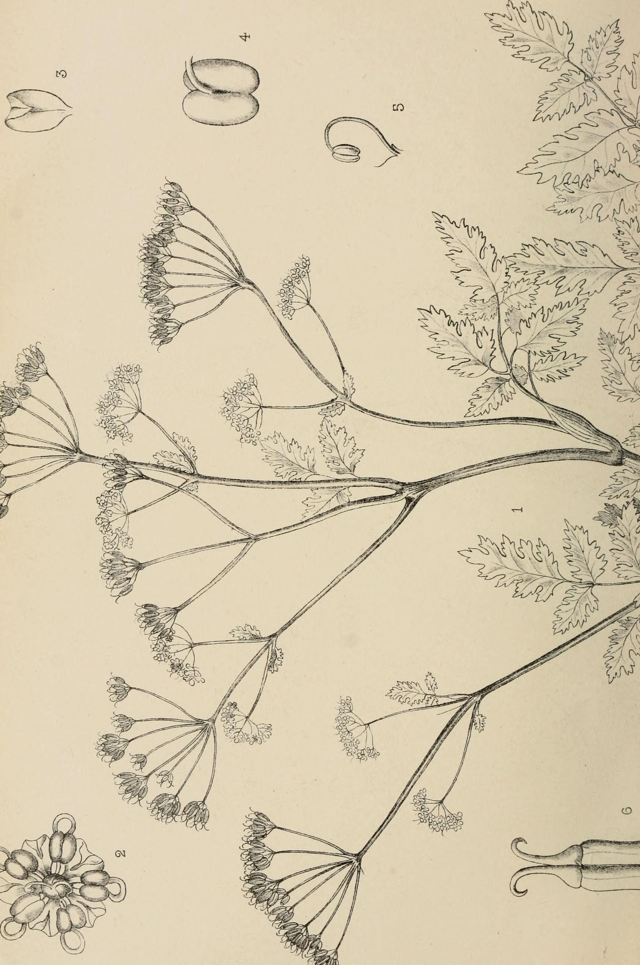 Title: Annuaire du Conservatoire et du jardin botaniques de Genve Year: 1897-1919/1922 (1890s) Authors: Conservatoire et jardin botaniques de la ville de Genve Subjects: Plants; Plants -- Switzerland Publisher: Genve : Georg & Cie Text Appearing Before Image: ' Text Appearing After Image: '